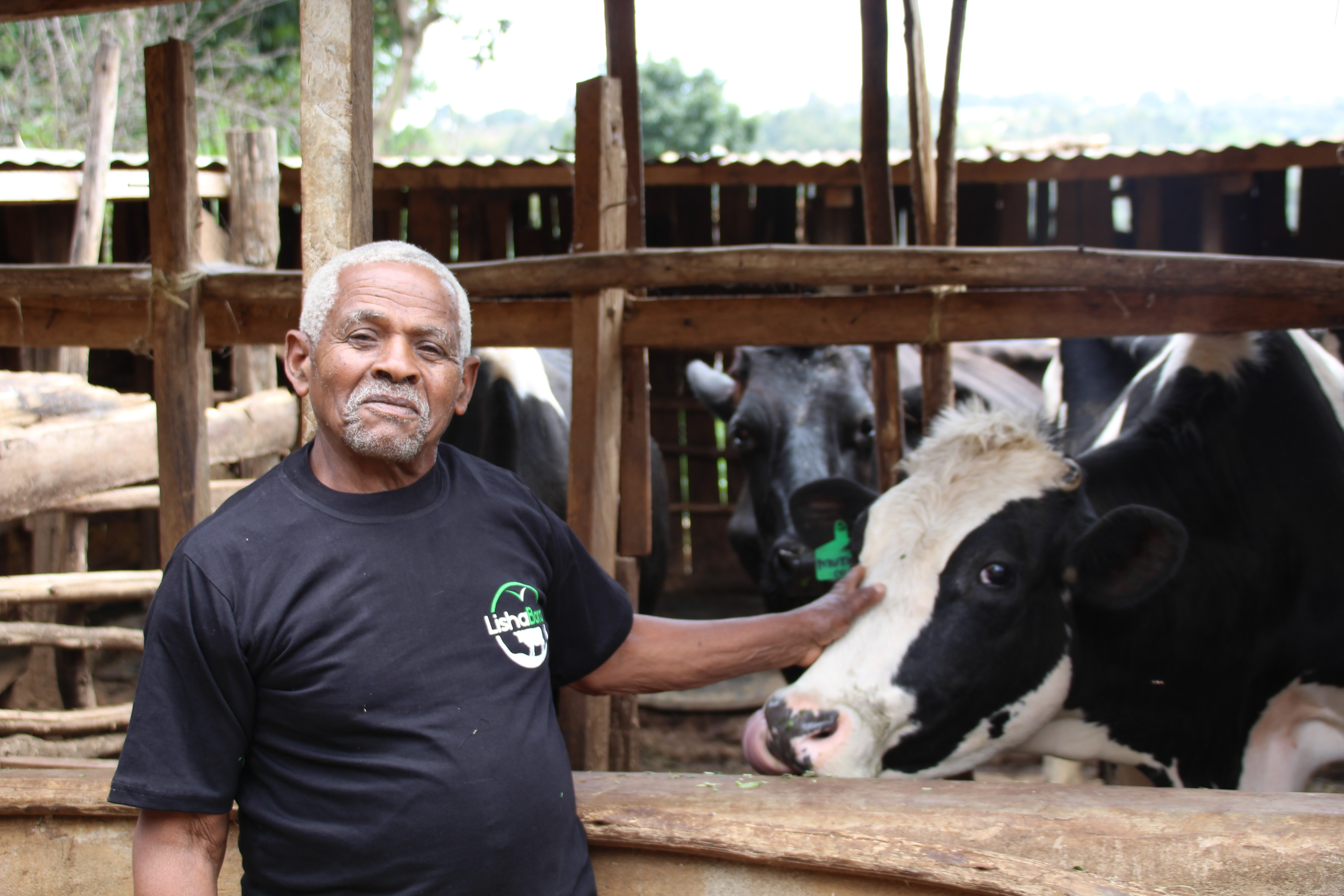 LishaBora works with smallholder dairy farmers to increase their profitability and sustainability. We sourced quality-assured inputs, offer grass management and best farming practices, and co-manage outputs with dairy traders using our mobile business management application. This is an image of "African people at work" from Kenya